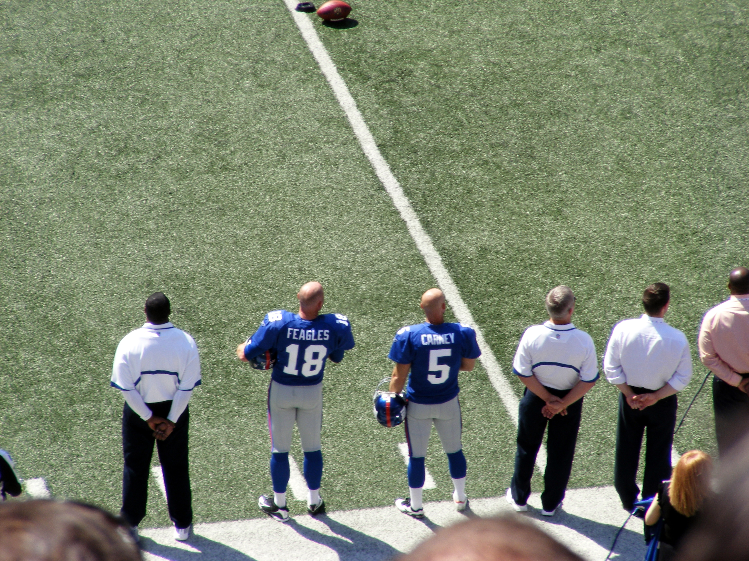 Jeff Feagles and John Carney on the sidelines before a New York Giants game in 2008.